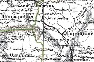 Village on the map 1876. The author of this map is Aleksey Ilin (1834-1889). Full title of the map : "Detailed map of the Russian Empire, with plans to major cities" (1876).